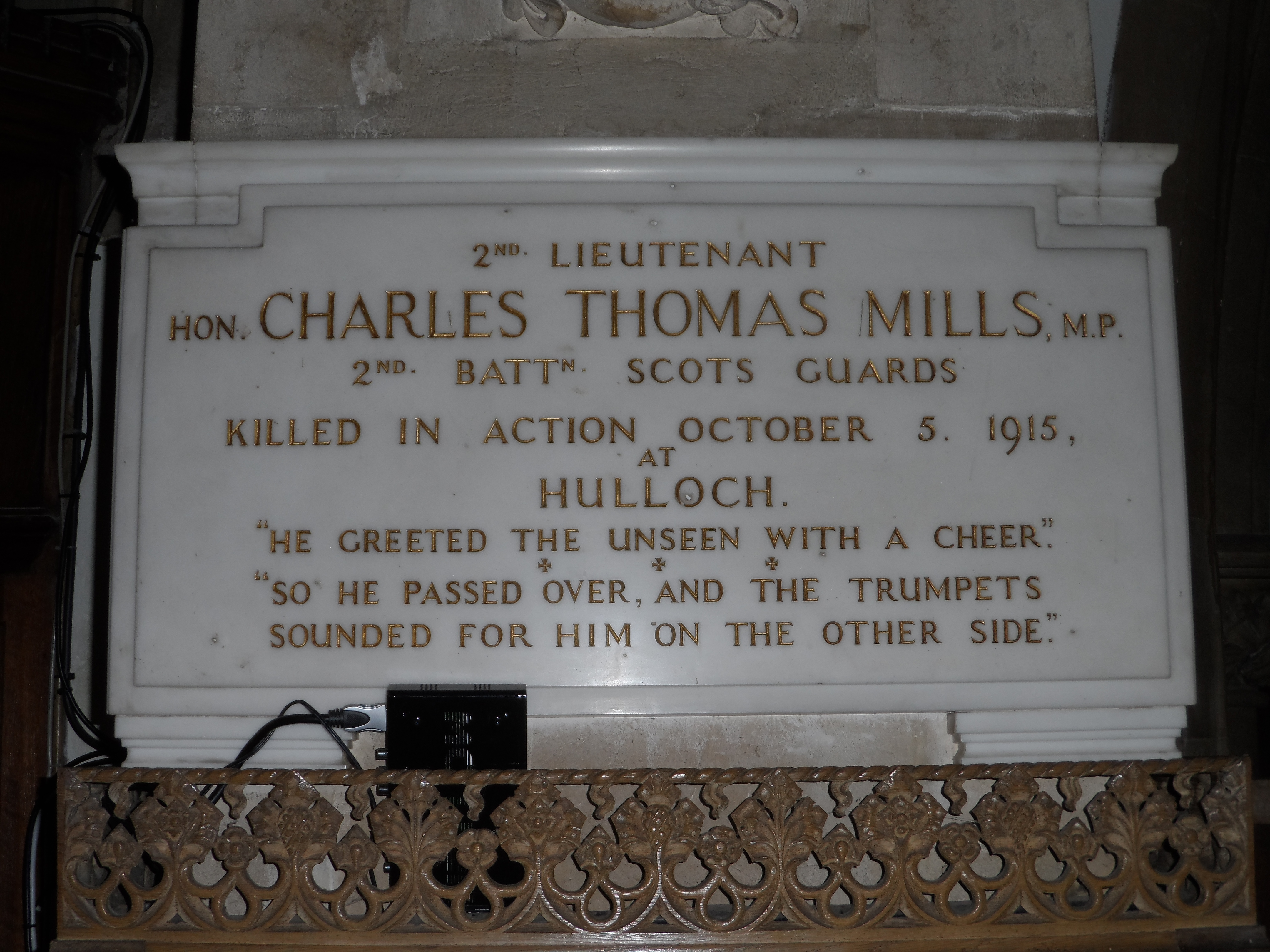 Charles Thomas Mills memorial in St John the Baptist's Church, Hillingdon. Charles Thomas Mills. CWGC casualty details. Inscription: 2nd Lieutenant Hon. Charles Thomas Mills M.P. 2nd Battn. Scots Guards Killed in Action October 5, 1915, at Hulloch. "He greeted the unseen with a cheer." "So he passed over and the trumpets sounded for him on the other side." This memorial is located opposite a similar one to his father, Charles Mills, 2nd Baron Hillingdon, who died in 1919. See File:Charles William Mills memorial in St John the Baptist's Church, Hillingdon.jpg. For perspective views, see File:Charles Thomas Mills memorial in St John the Baptist's Church, Hillingdon 03.jpg and File:Charles Thomas Mills memorial in St John the Baptist's Church, Hillingdon 04.jpg.